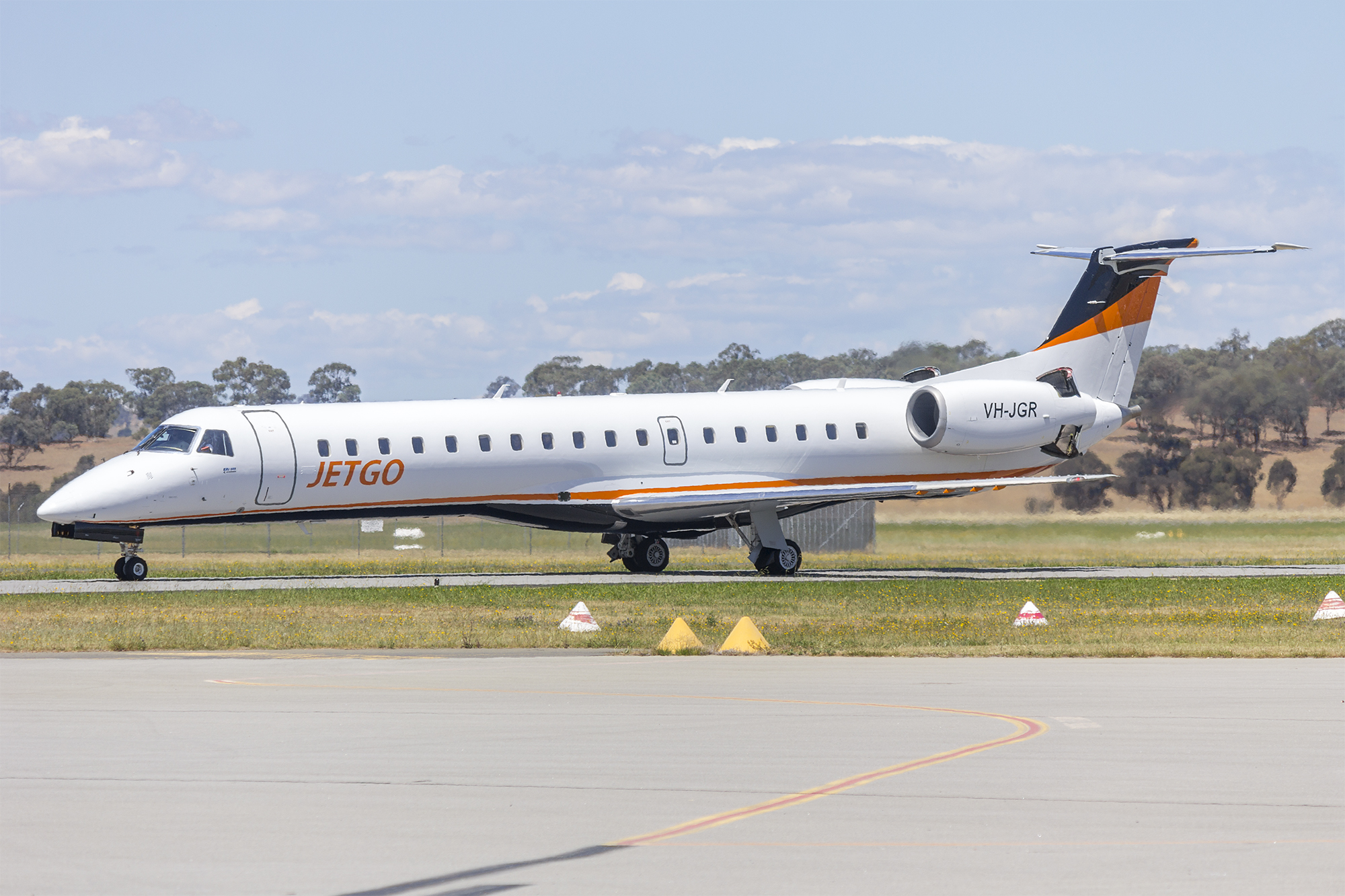 JetGo Australia (VH-JGR) Embraer ERJ-145LR at Wagga Wagga Airport.